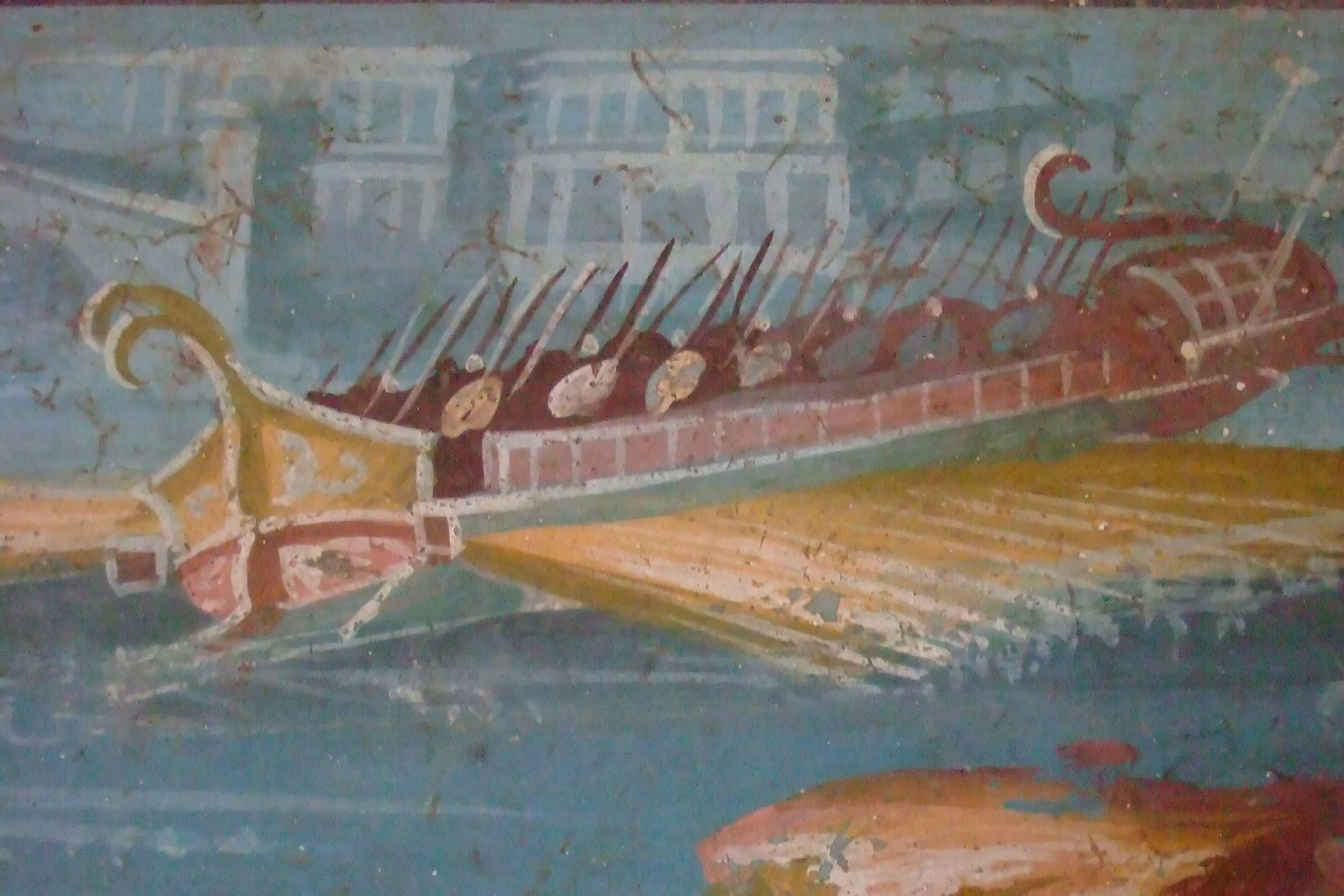 Triremes, a detail from a panel of the Temple of Isis, Pompeii; Naples Archaeological Museum, Italy (inv. nr. 8527) (cat. 1.29).